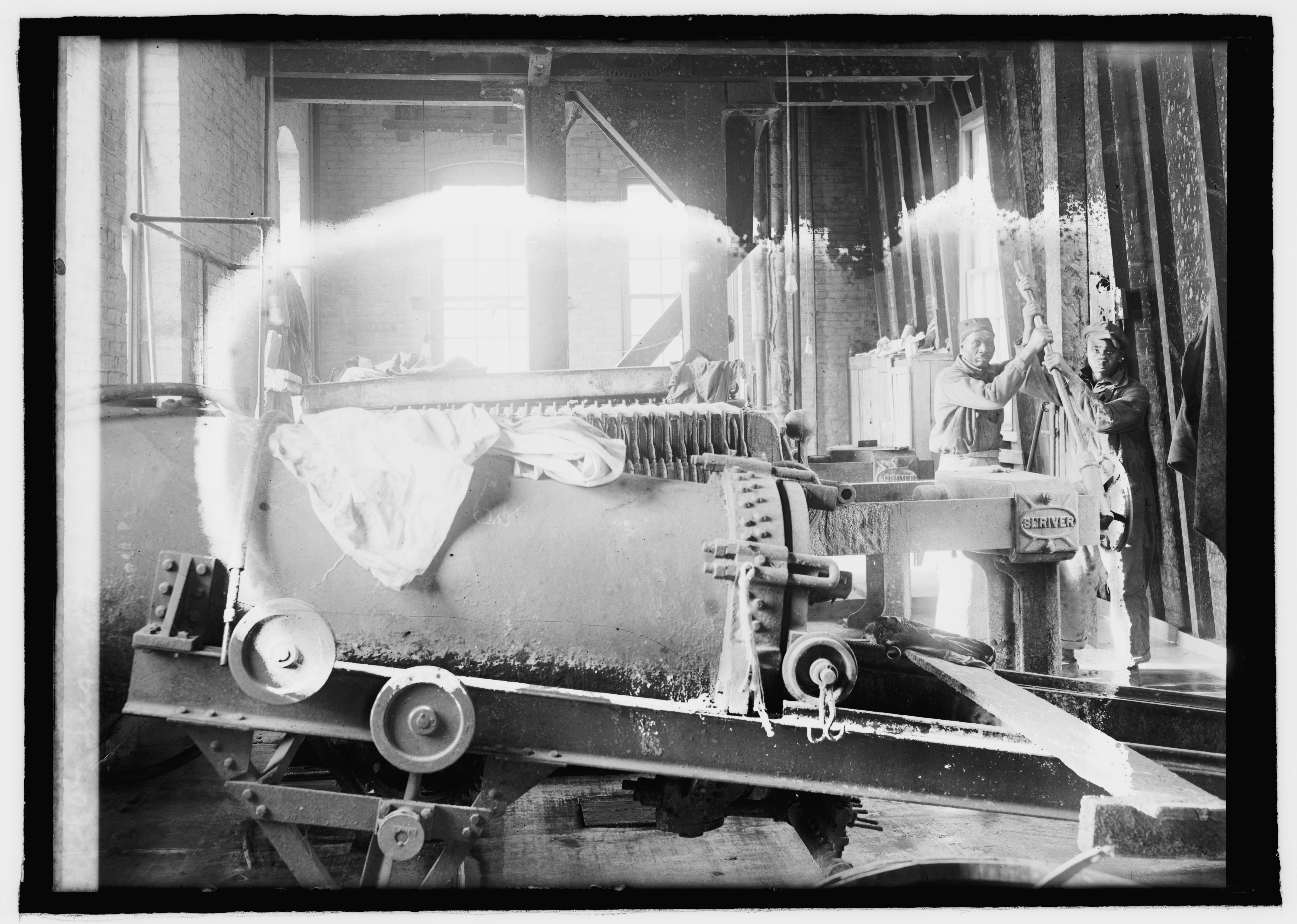 Title: Sugar from corn Abstract/medium: 1 negative : glass ; 5 x 7 in. or smaller